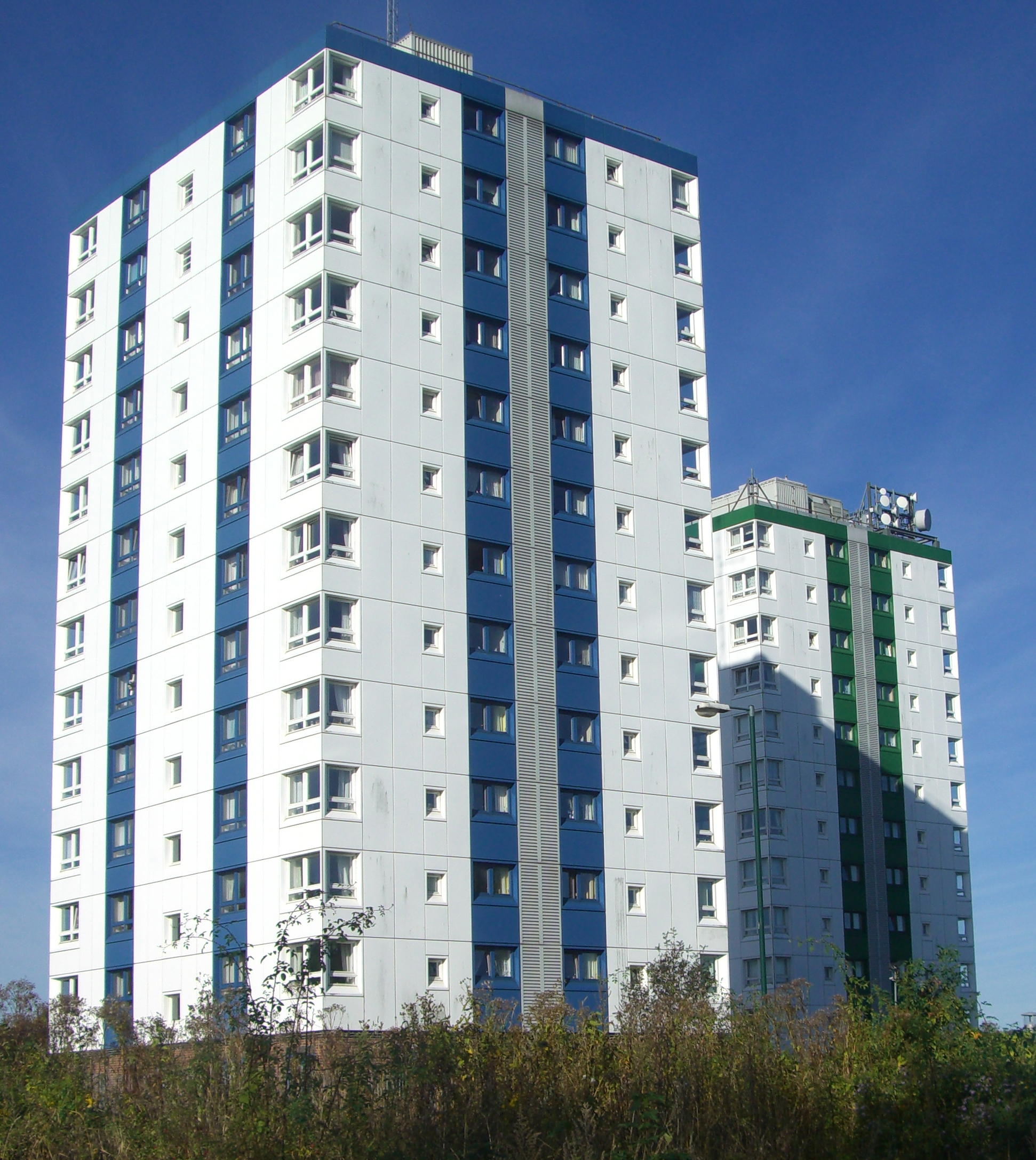 The two tower blocks at Herdings in Gleadless Valley, Sheffield, England.